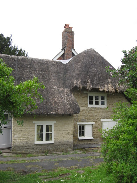 Coate Farmhouse Now the Richard Jefferies Museum